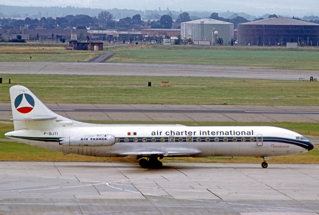 Sud SE-210 Caravelle III F-BJTI of Air Charter International at London Heathrow in 1971